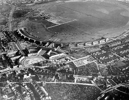 Aerial photo of the Berlin Tempelhof airport.